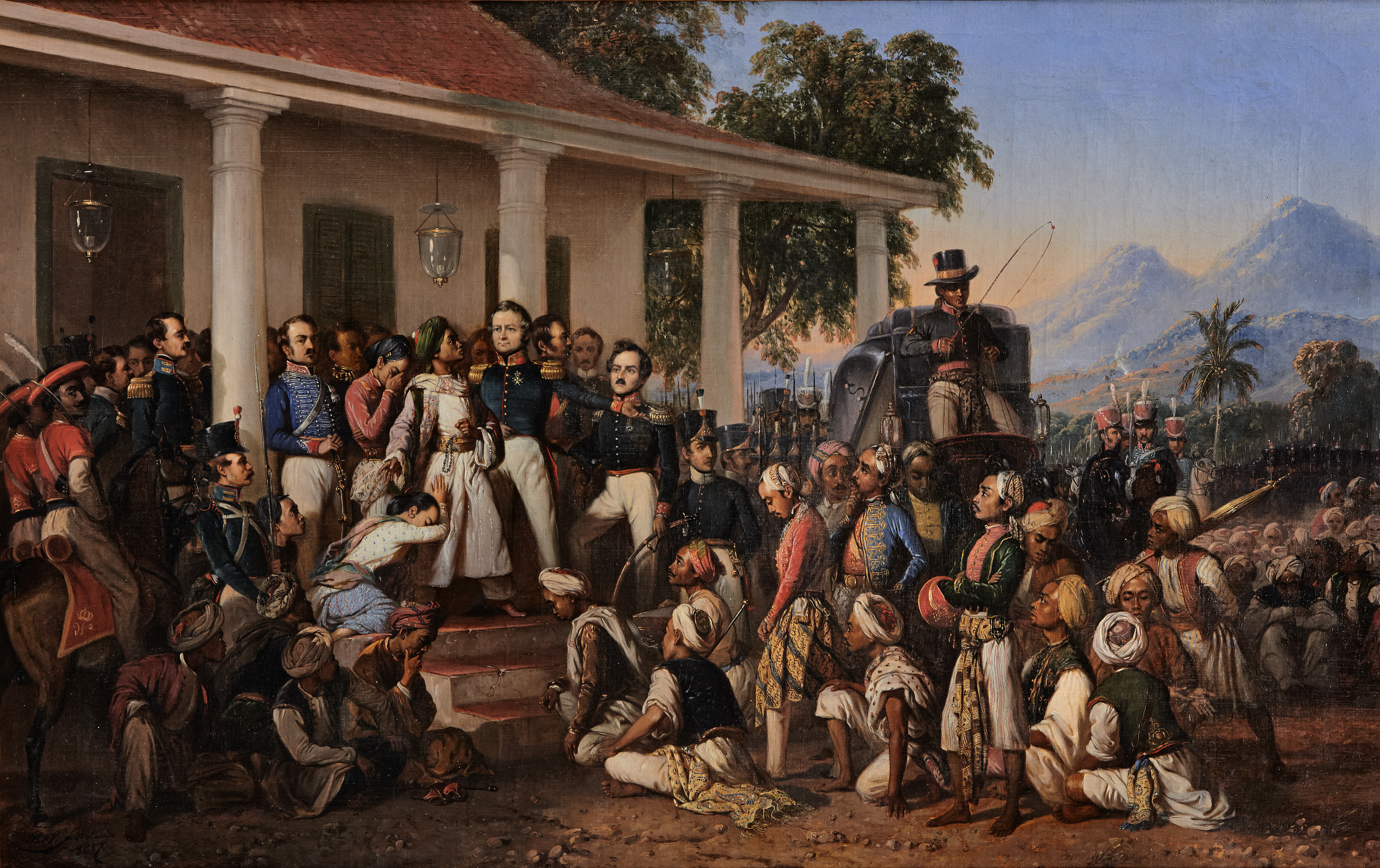 Depicts the arrest of prince Diponegoro at the end of the Javan War (1835-1830 ??).